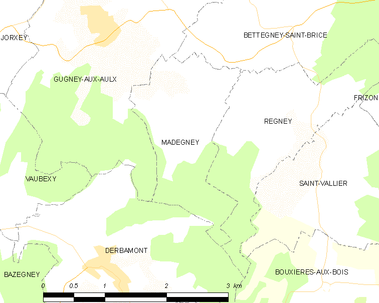 Map of French municipality Madegney